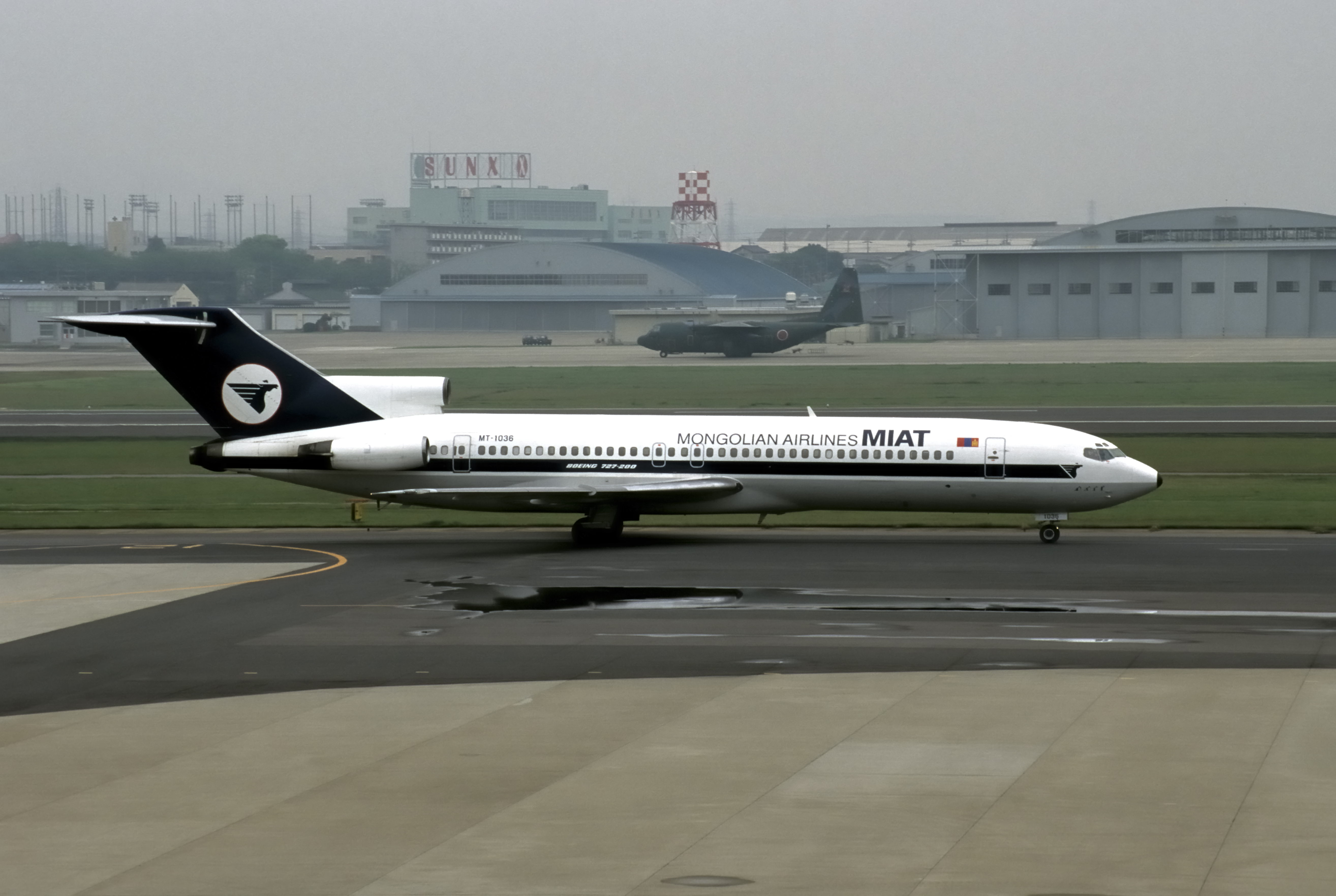 Mongolian Airlines B727-281 Adv. (MT-1036/20572/881)